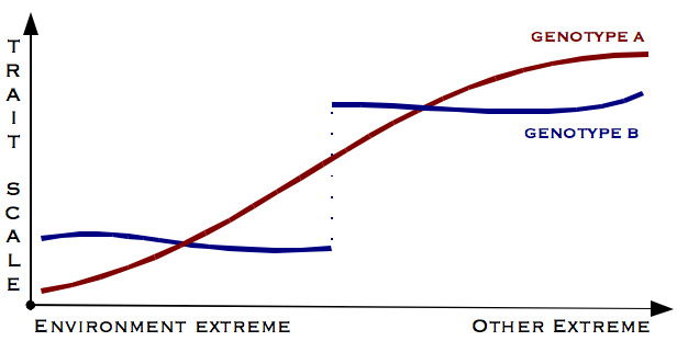 Norm of reaction illustrating bimodal distribution (same as Trait-scale-canalisation.png, but more neutral name)